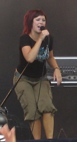 Petra from Tiktak, Provinssirock 2006, Finland.